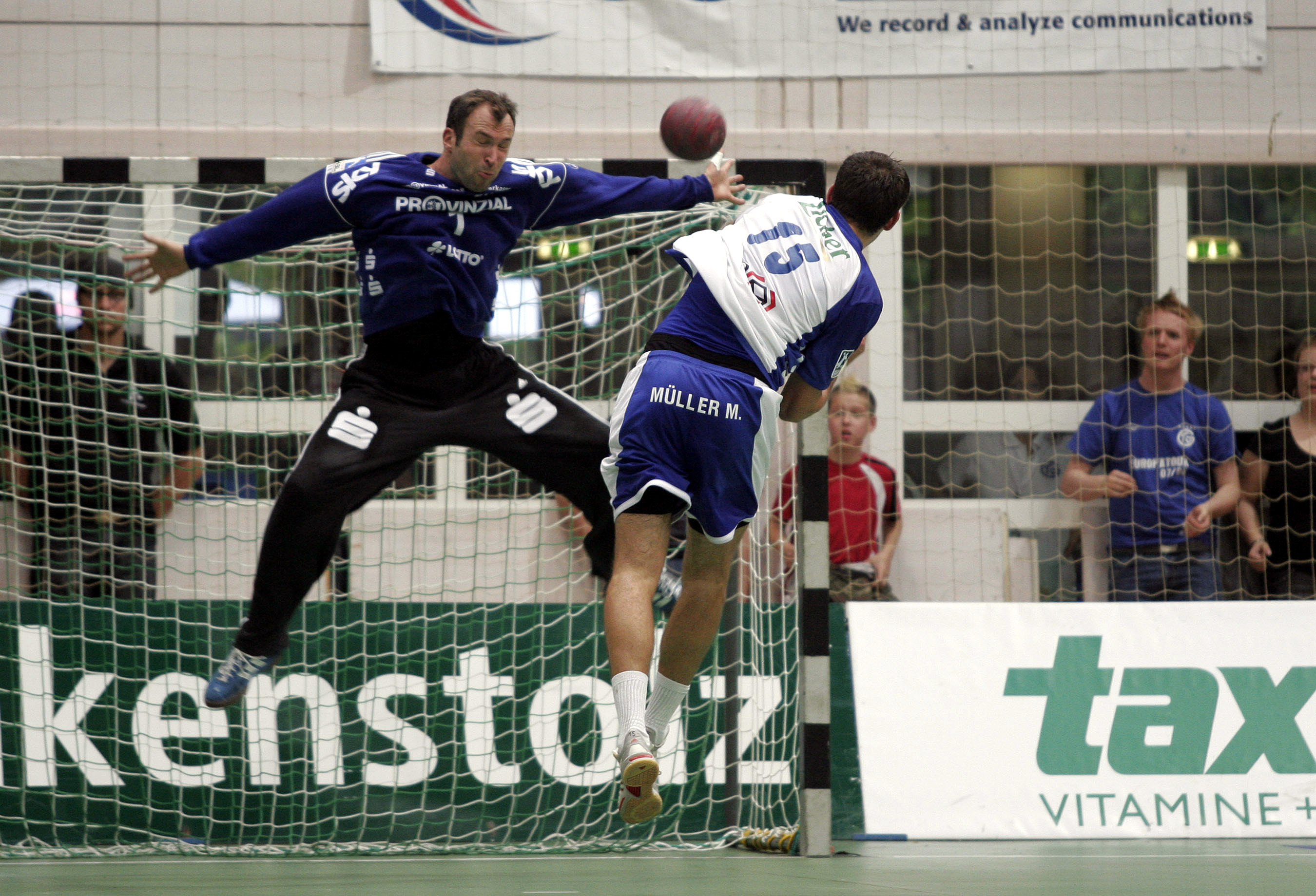 Thierry Omeyer (goalkeeper) vers. Michael Müller (shooter), on September 1st, 2007 in Aschaffenburg (Germany), during the game TV Großwallstadt - THW Kiel. Series of 3 Images, this is #2